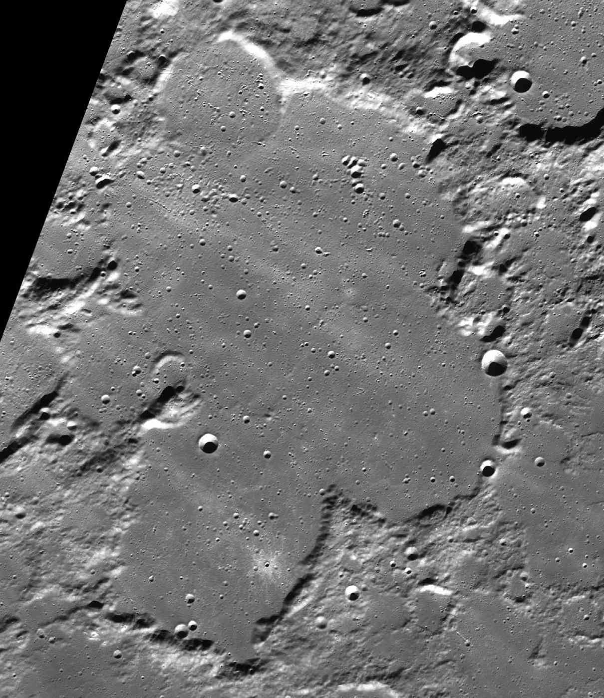 Part of the chart LAC-4